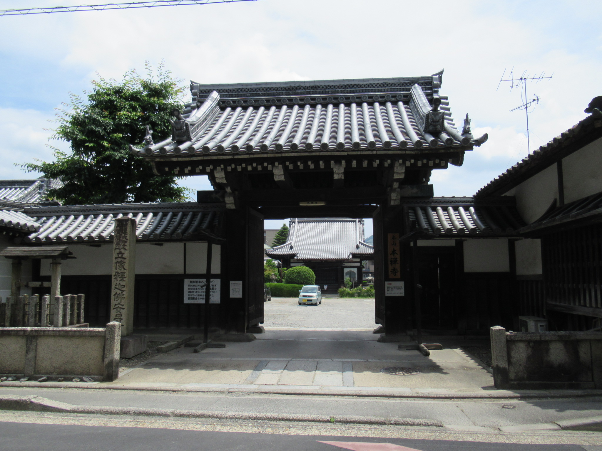 Honzenji, Kamigyo-ku, Kyoto.